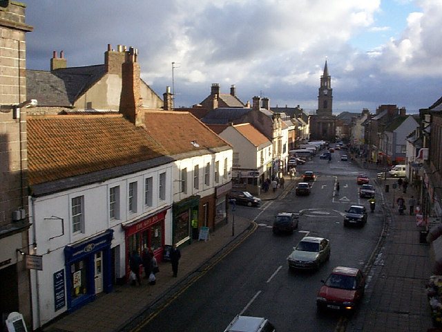 Berwick Town Centre from ramparts.